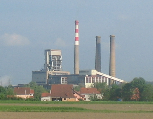 TPP Kolubara A in Veliki Crljeni (viewed from Ibarska magistrala), Lazarevac municipality,Serbia.